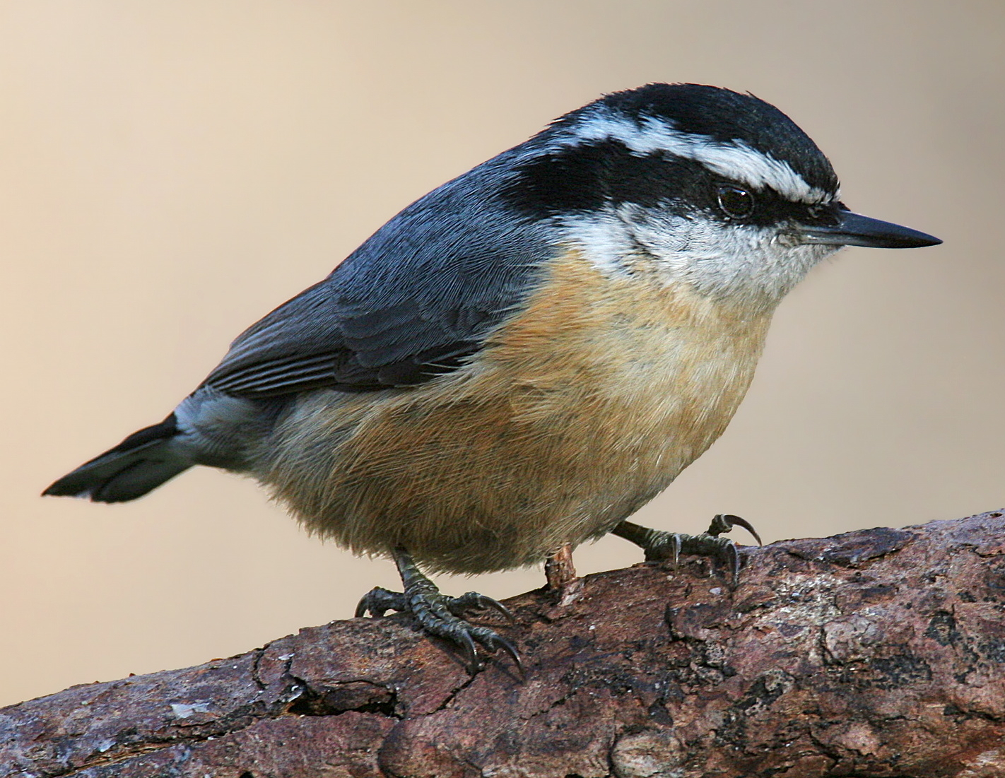 Red-breasted Nuthatch (Sitta canadensis)